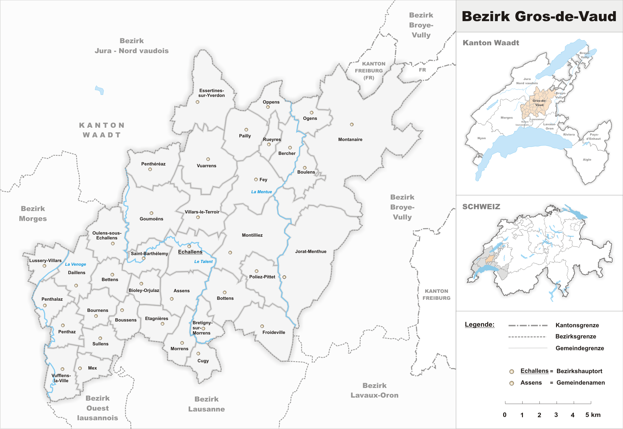 Municipalities in the district of Gros-de-Vaud